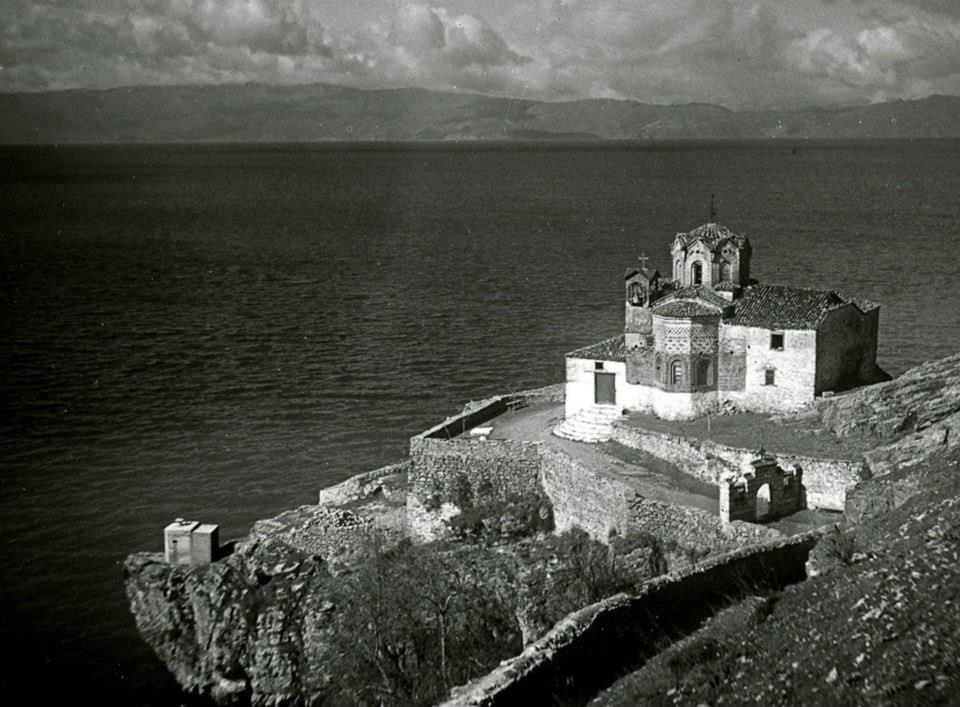 St. John tbe Baptist Kaneo Church in Ohrid, Macedonia